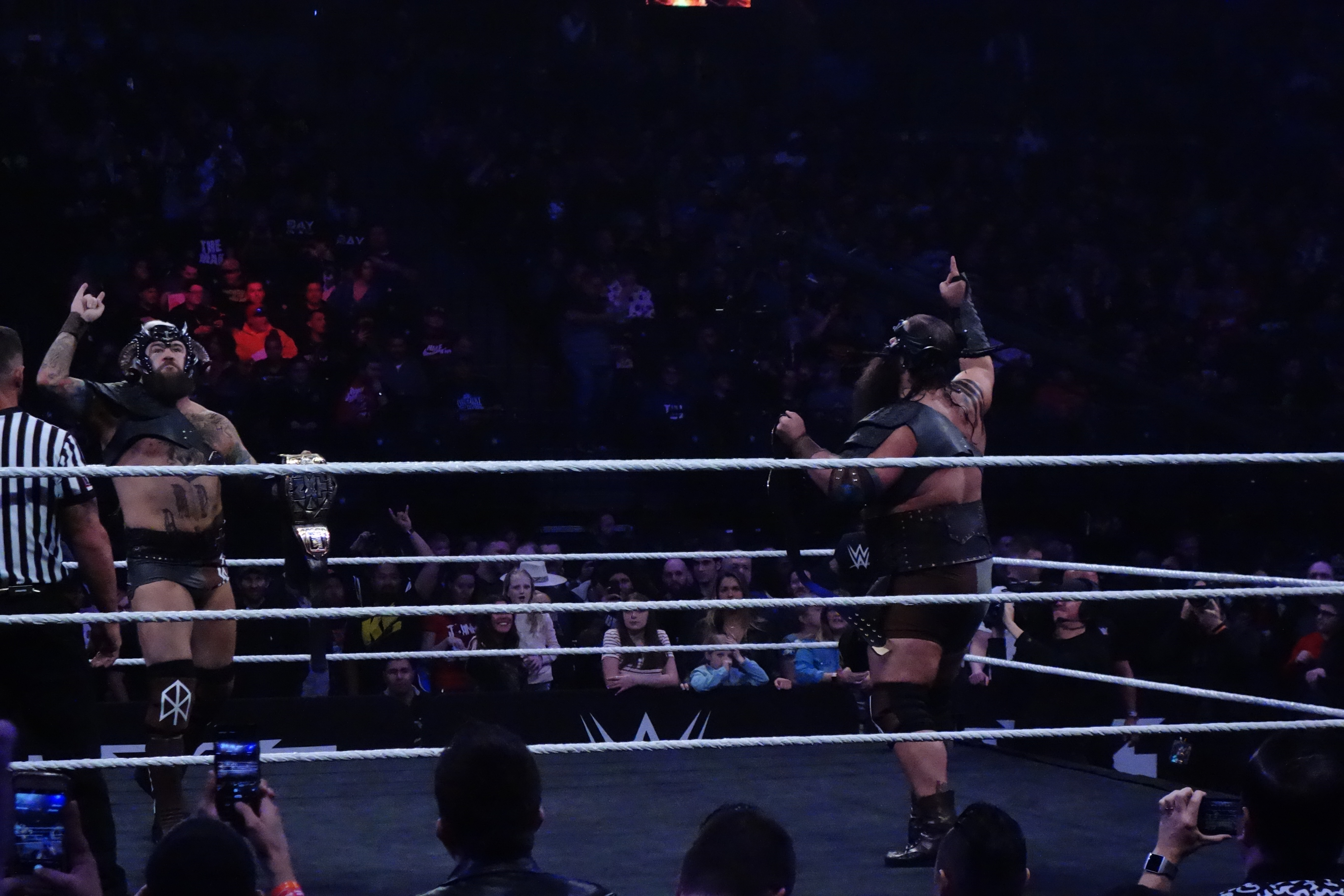 War Machine